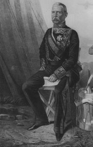 Raimundo de Sotto y Langton